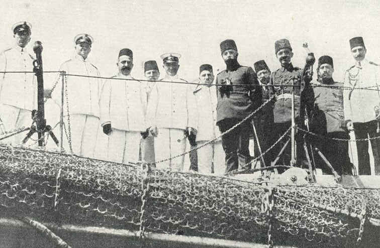 Djemal Pasha (with field glasses) on board SMS Goeben